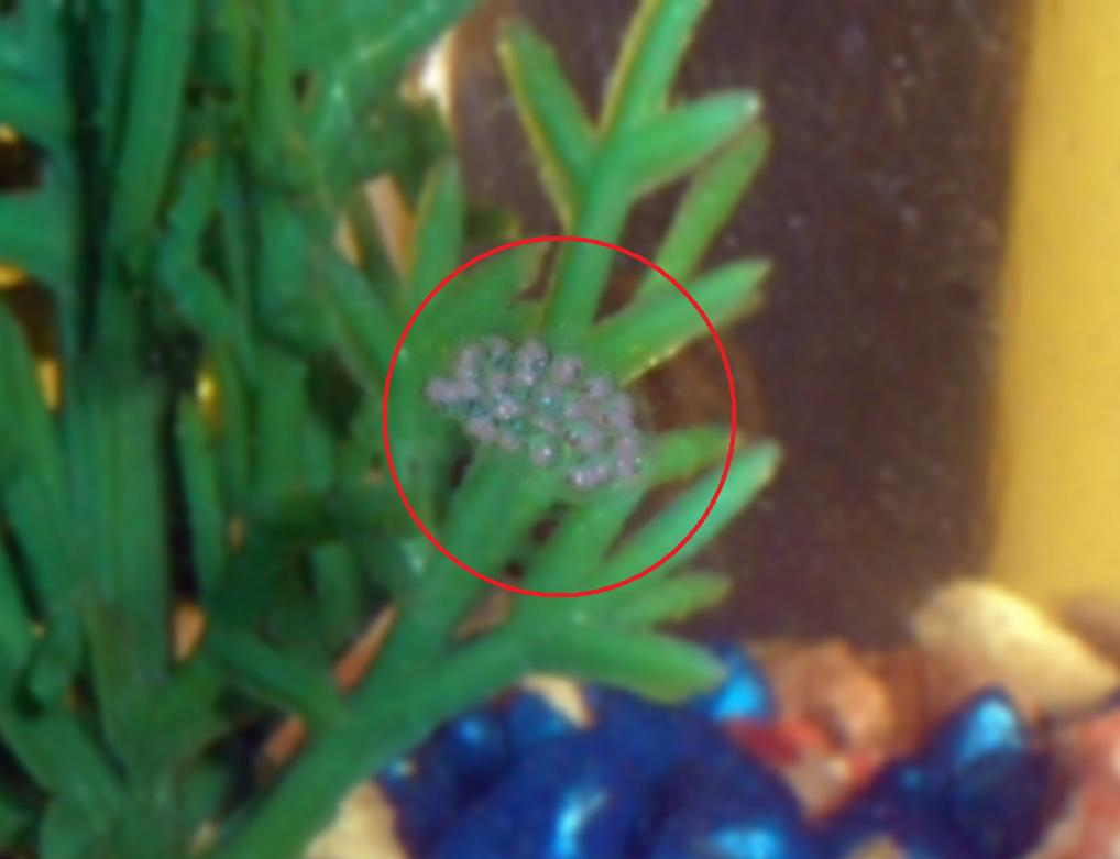 A batch of aquatic snail eggs attached to solid glass.